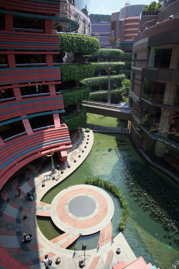 Canal City Hakata inner, Good Design Award 1996.